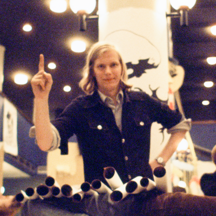 Editor and cartoonist Jacques Hurtubise in 1973. Supplementary technical data: digitization of a 35mm slide. Original camera: Nikon F with 43-86mm Nikkor lens.